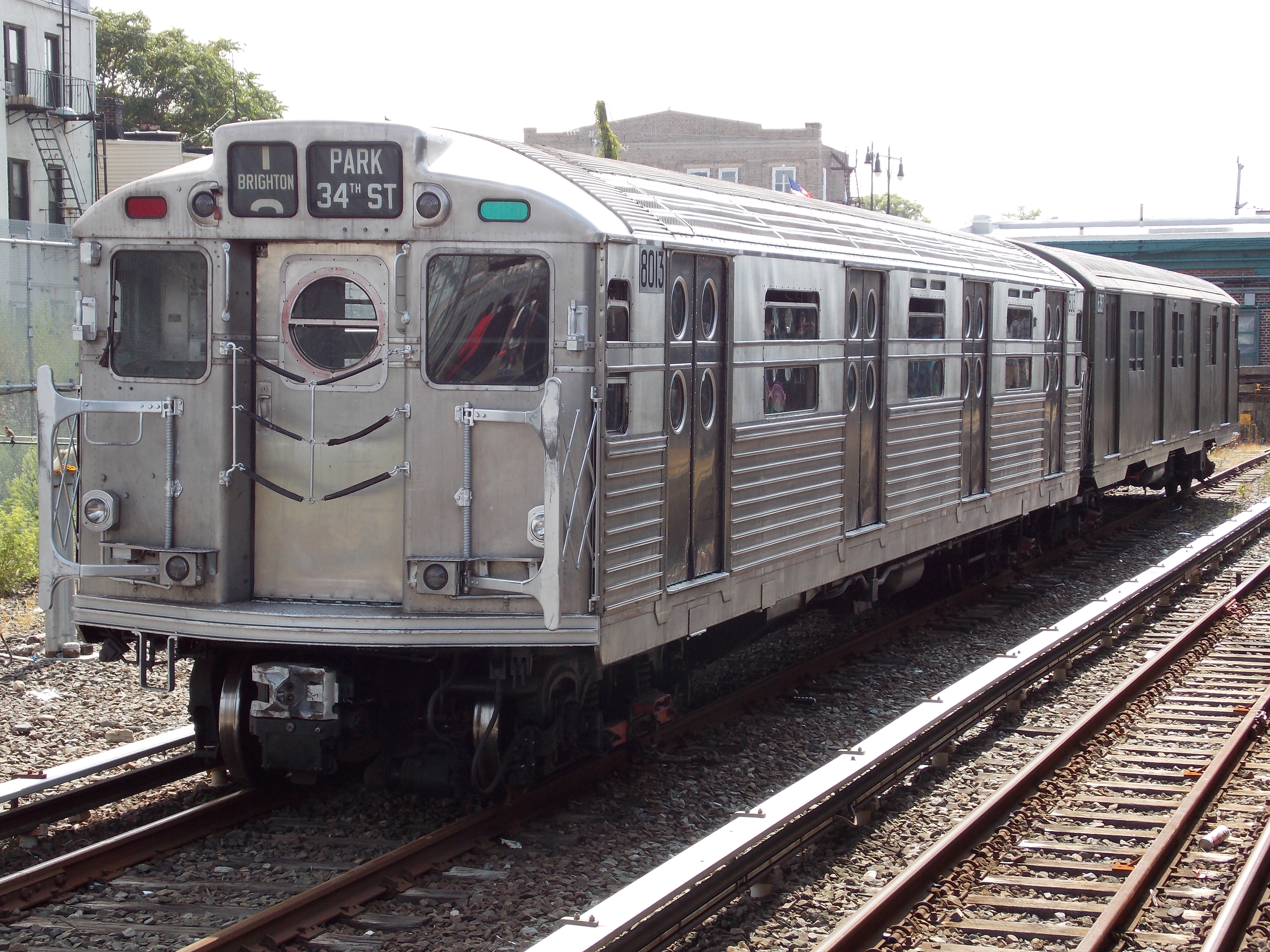 R11/R34 8013 sitting on layup track for a photo op at Rockaway Park - Beach 116th Street coupled to R16 6387 during the Train of Many Metals fan trip on August 3rd, 2014.